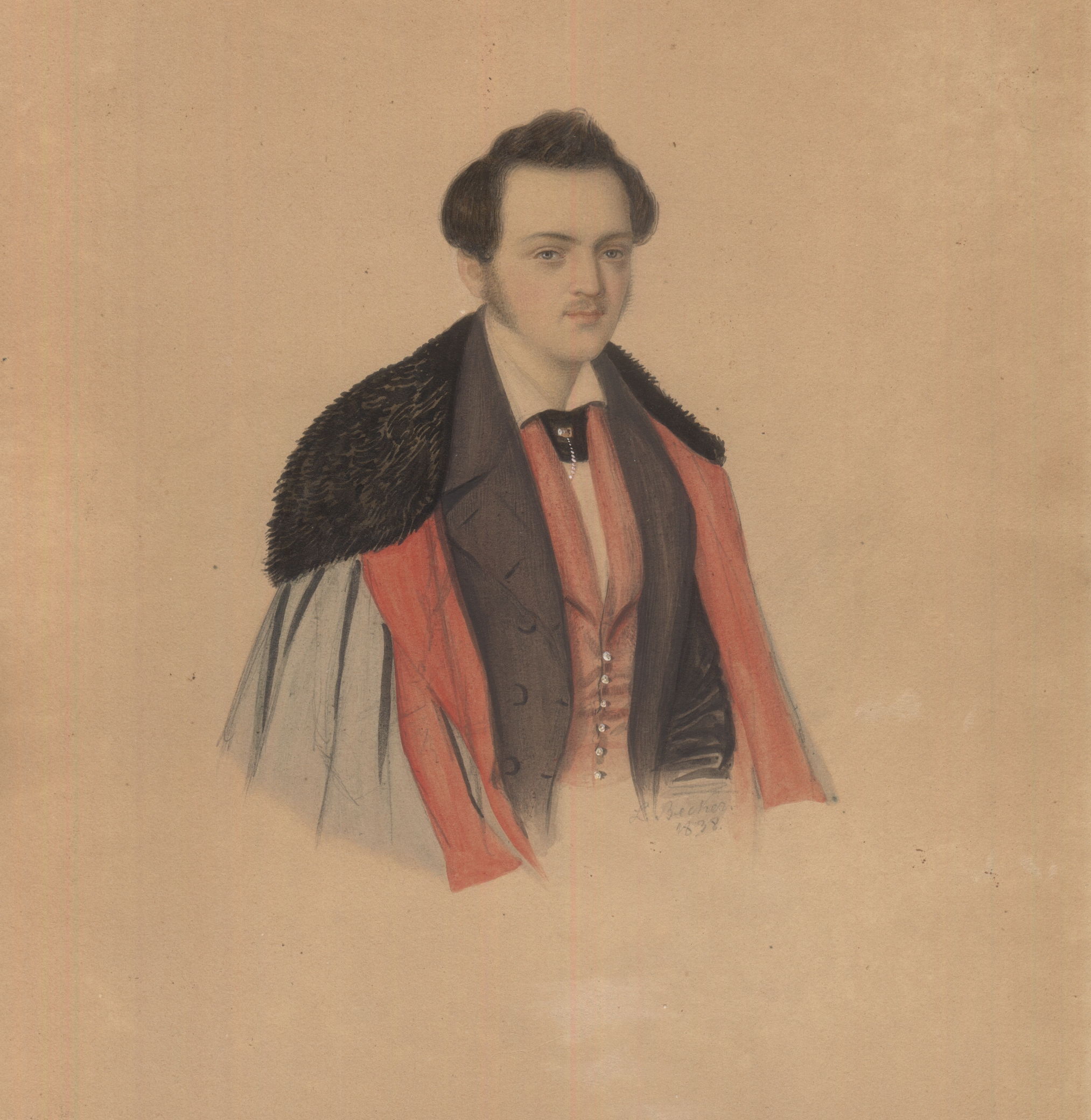 Wilhelm Büchner as a Student